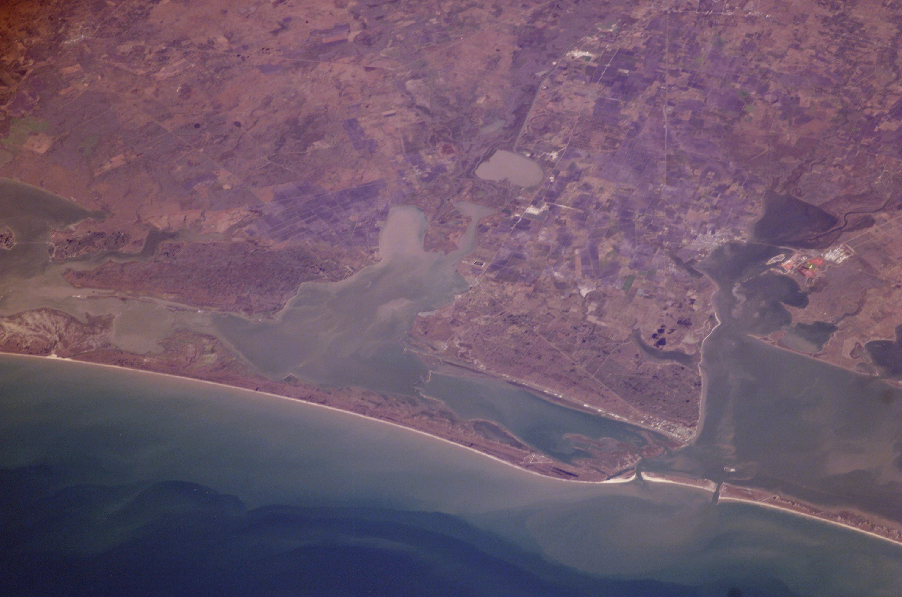 San Antonio Bay as seen from the International Space Station NASA Photo Identification Mission: ISS006 Roll: E Frame: 26546 Mission ID on the Film or image: ISS006 Country or Geographic Name: USA-TEXAS Features: SAN ANTONIO BAY Center Point Latitude: 28.5 Center Point Longitude: -97.0 (Negative numbers indicate south for latitude and west for longitude) Camera Camera Tilt: 52 Camera Focal Length: 180mm Camera: E4: Kodak DCS760C Electronic Still Camera Film: 3060E : 3060 x 2036 pixel CCD, RGBG array.